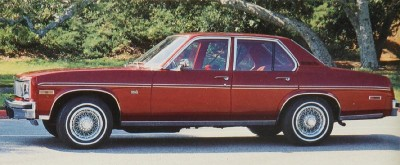 1978 Chevrolet Nova Custom 4-Door Sedan